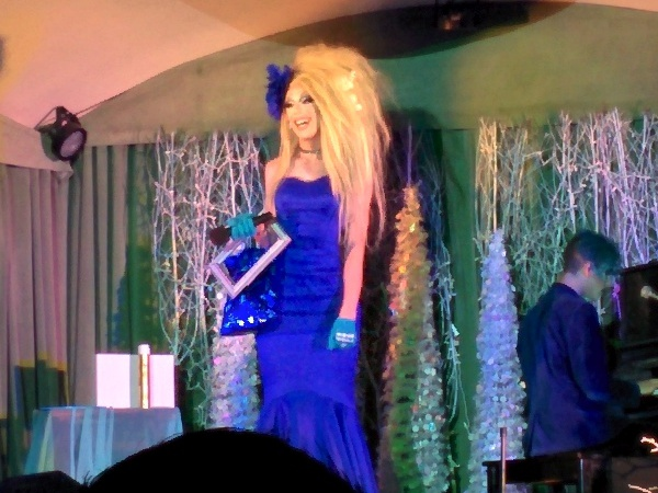 Alaska Thunderfuck 5000 closing the Blue Christmas special at the Verdi Club in San Francisco, California, United States.